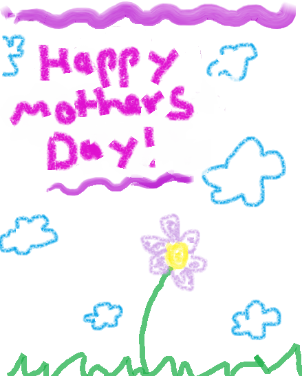 Mother's Day card